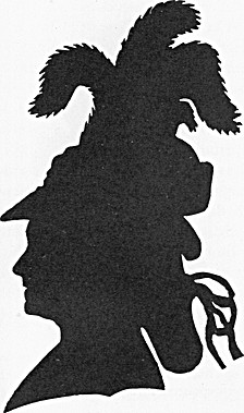 Silhouette of Augusta von Wickede, nee Vanselow (1751-1786), made by her husband Friedrich Bernhard von Wickede. From Friedrich Münters Stammbuch (Album amicorum), today in The Royal Library of Copenhagen (NkS 8° 605).